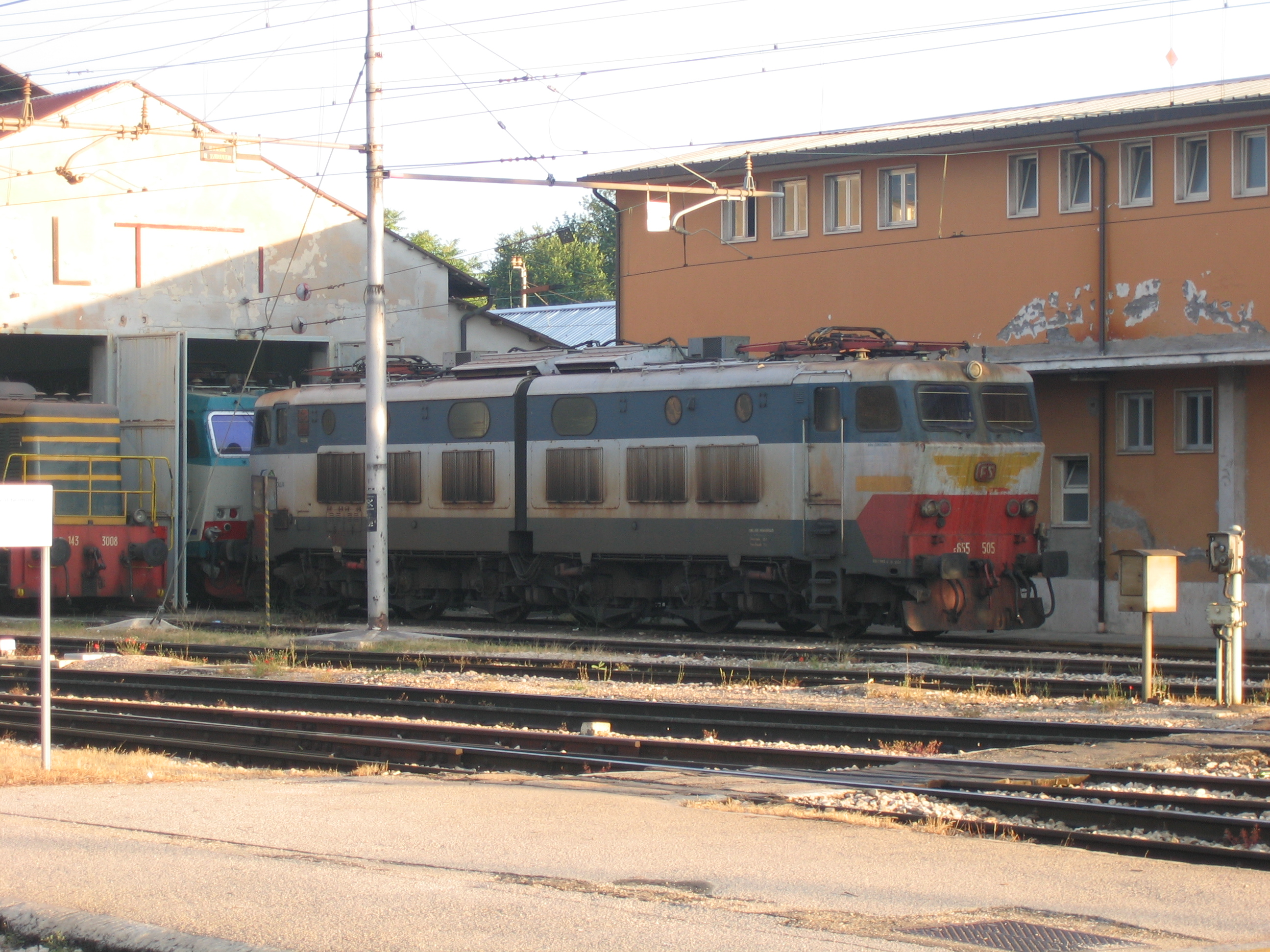 Locomotiva E.655.505 in Terni. Author: Jollyroger. 2 june 2006